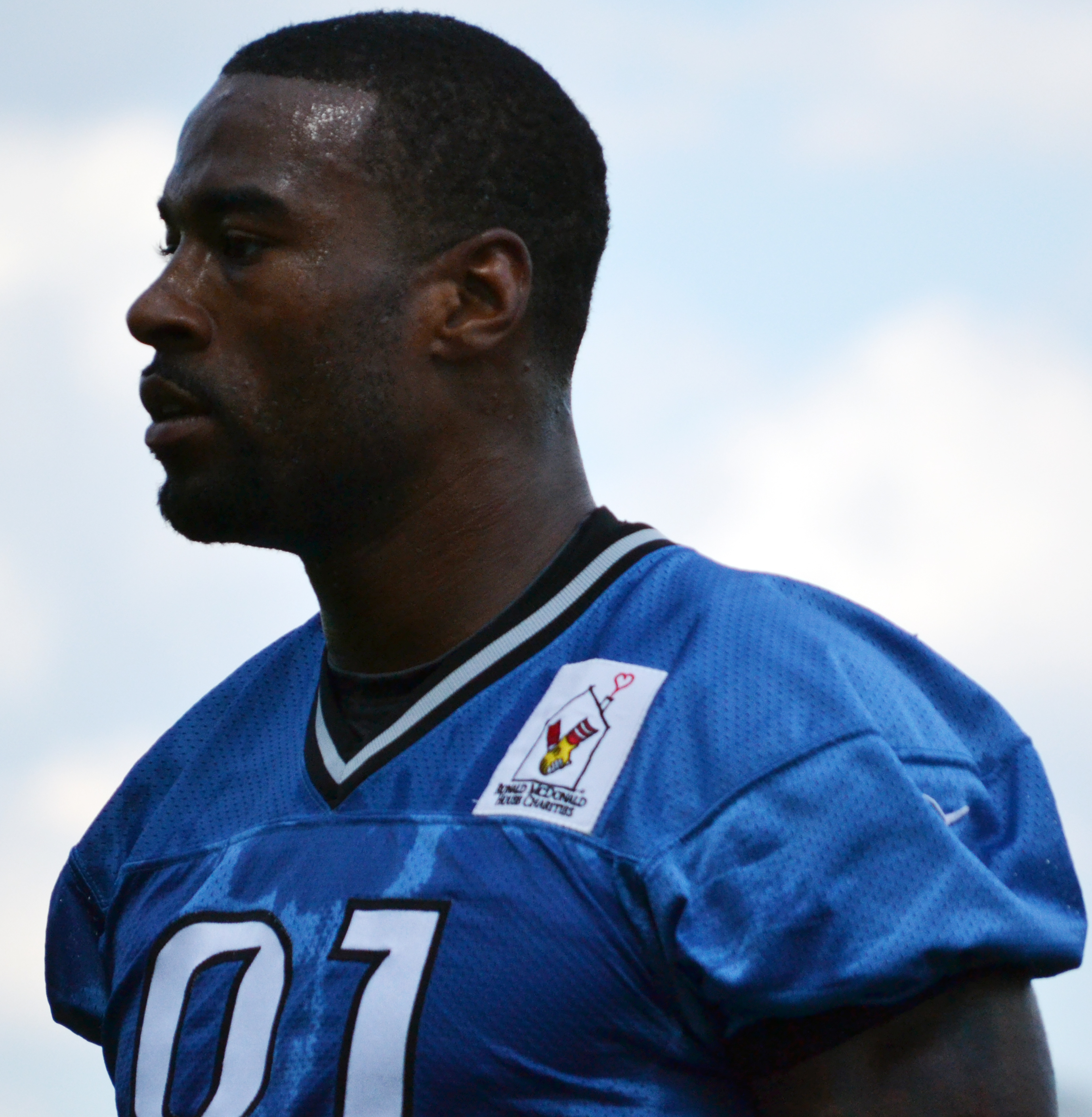 Calvin Johnson at the Detroit Lions training camp 2012